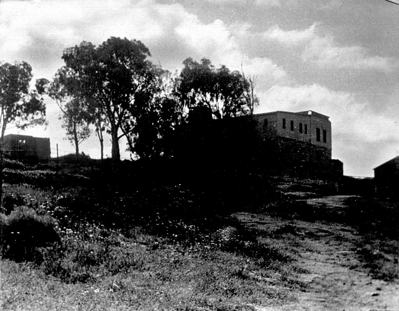 Settlements in Israel